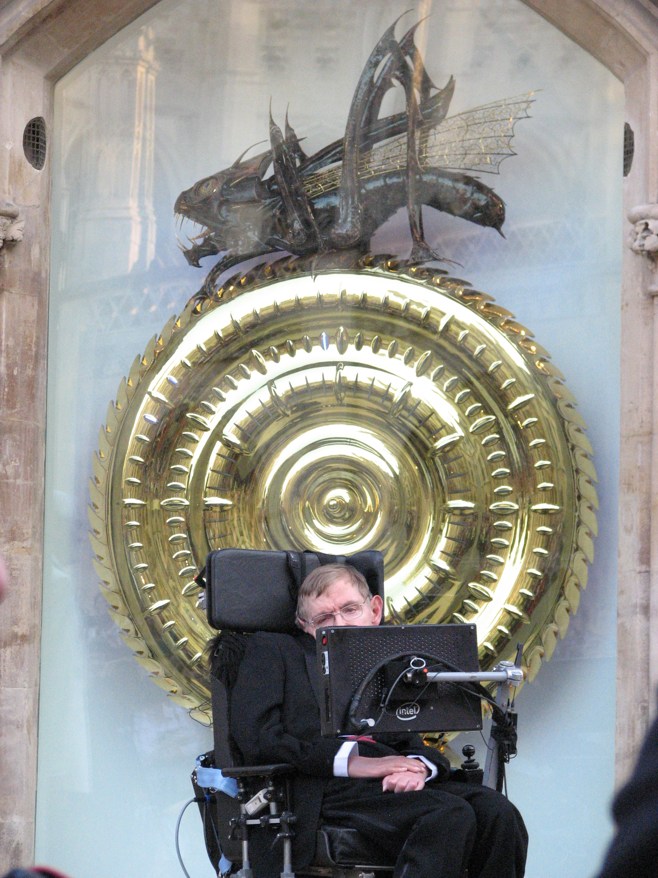 Stephen Hawking introduces the public to the Corpus Clock, at the Taylor Library, Corpus Christi College, Cambridge.